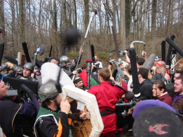 Meatgrinder battle from the Darkon Wargaming Club, Inc. Source: The Darkon Wargaming Club, Inc.